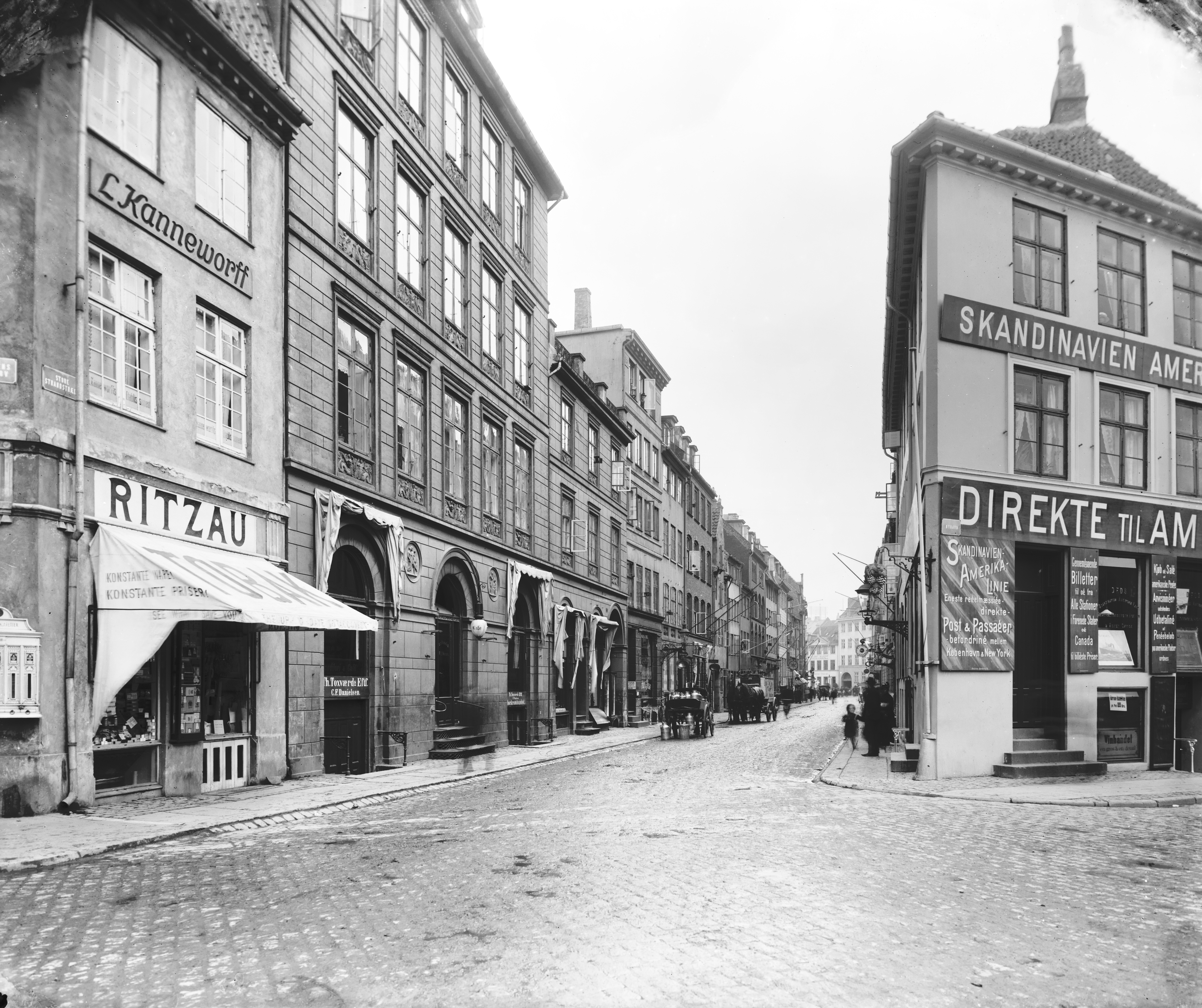 Store Strandstræde in Copenhagen, Denmark